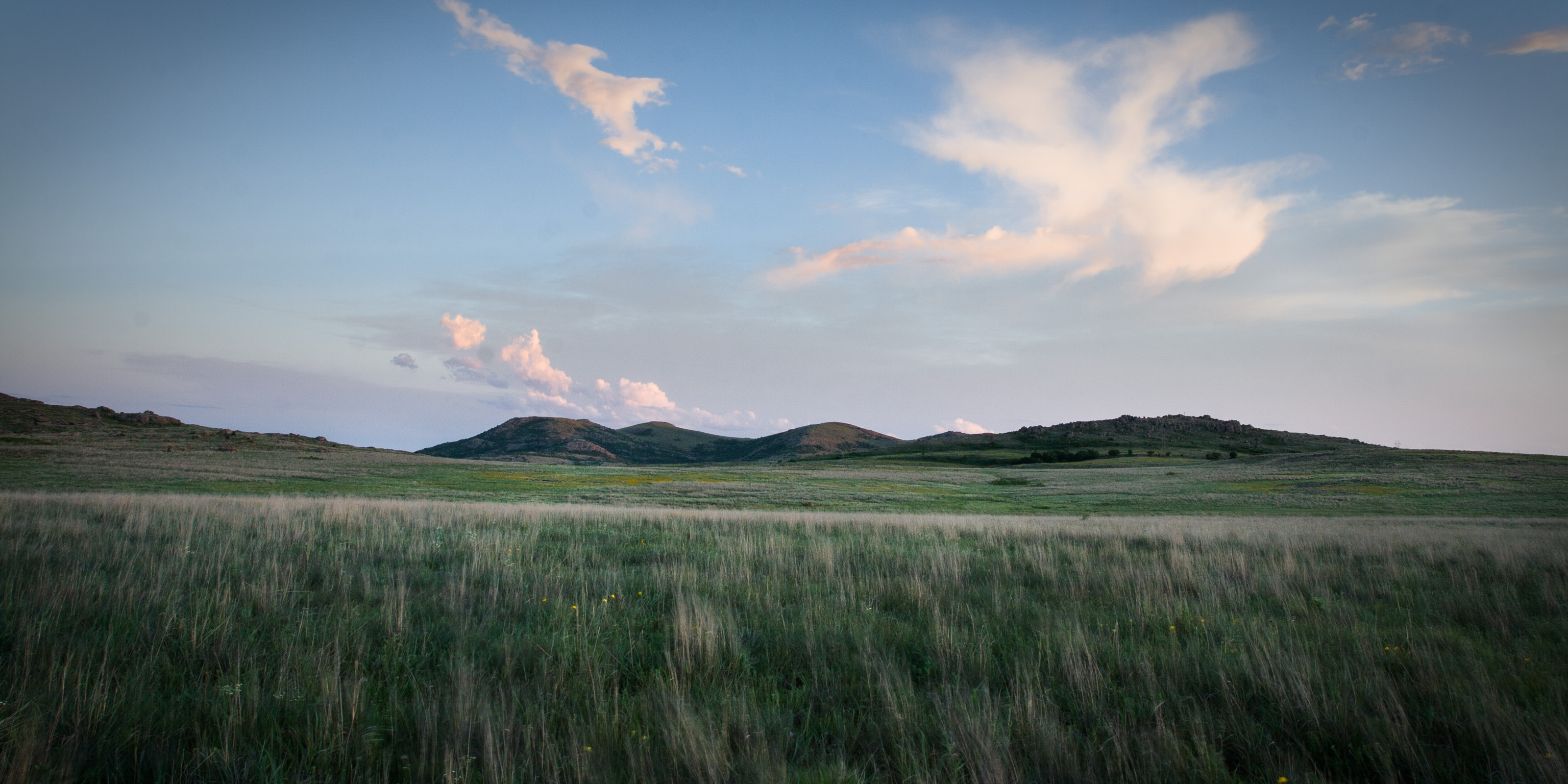 Tallgrass Prairie, Wichita Mountains Wildlife Refuge, Oklahoma